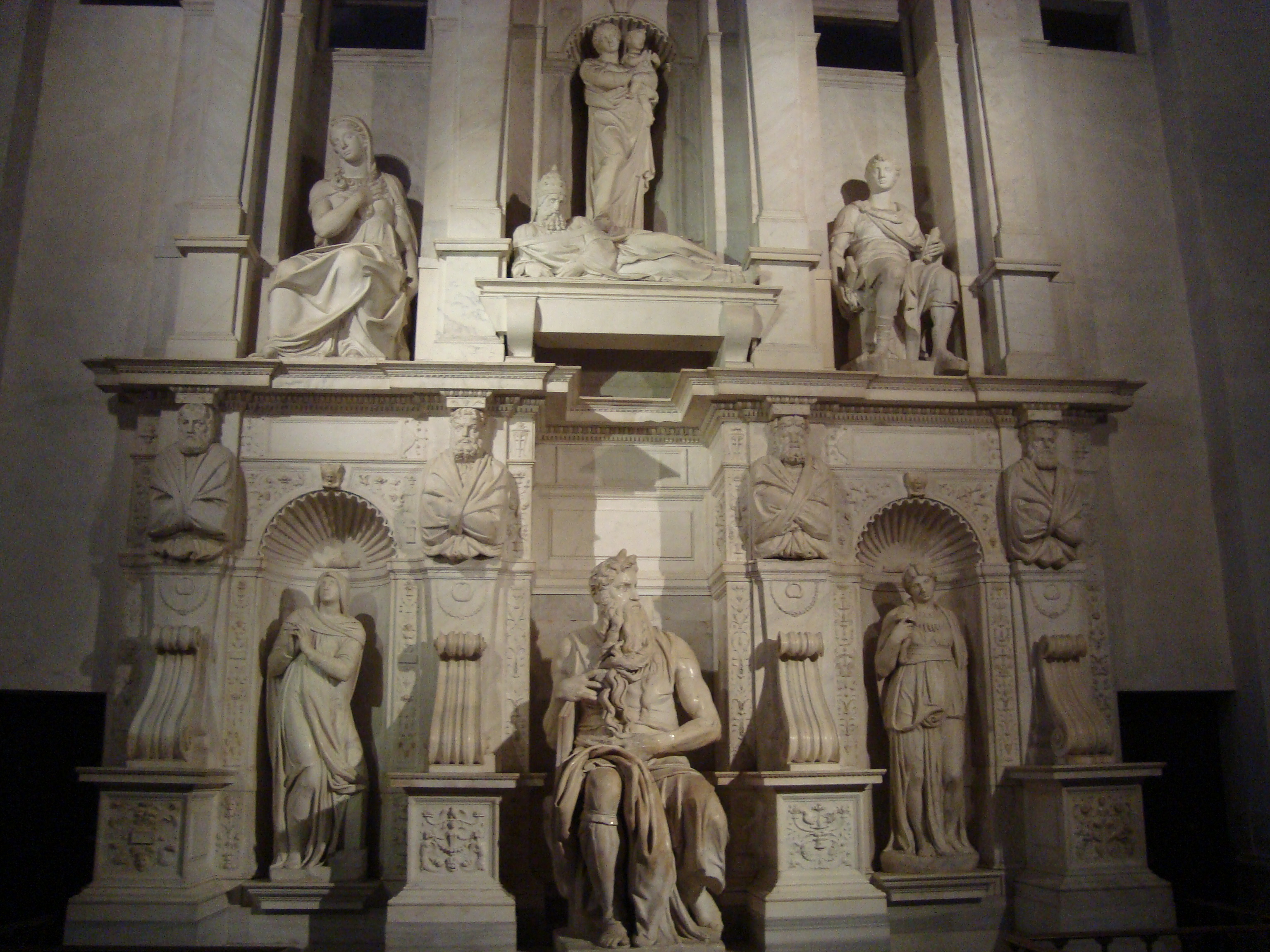 The tomb of Pope Julius II by Michelangelo and its statue of Moise in the basilica San Pietro in Vincoli in Rome